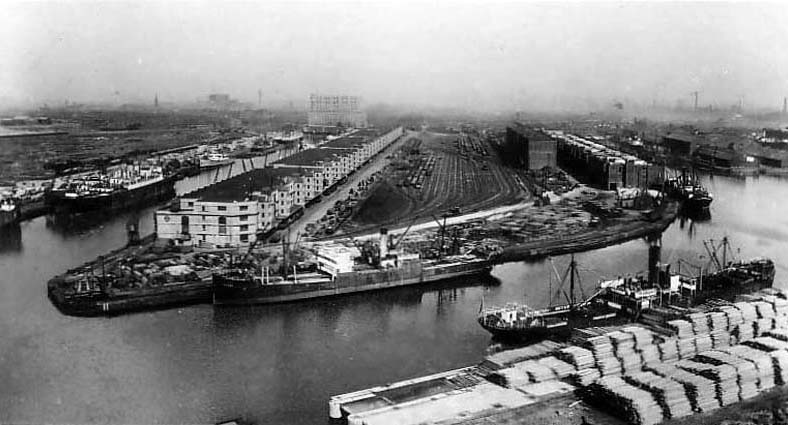 Dock No. 9 (top left) of the Salford Docks, Salford, Greater Manchester, England. Dock No. 8 is at the right and the Ship Canal in the foreground